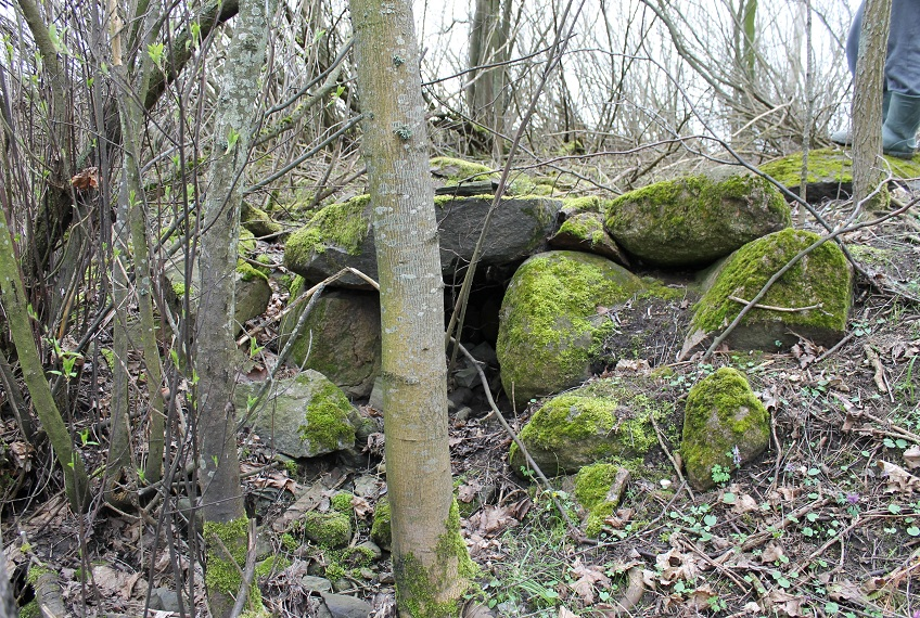 Vitiniai, Klaipėda district, Lithuania